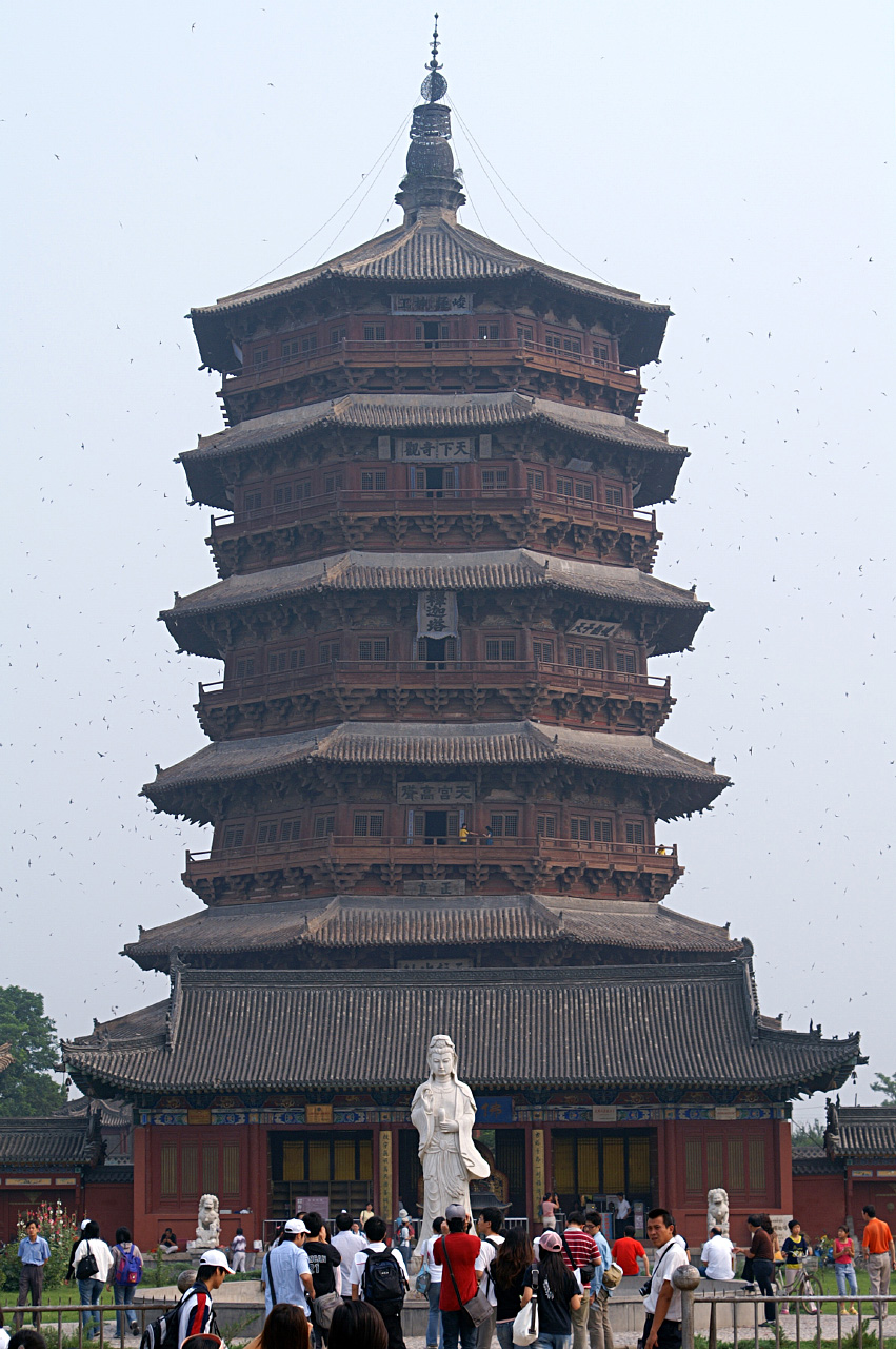 The Wooden Tower Of Ying county, Shanxi, China 中國山西佛宮寺應縣木塔